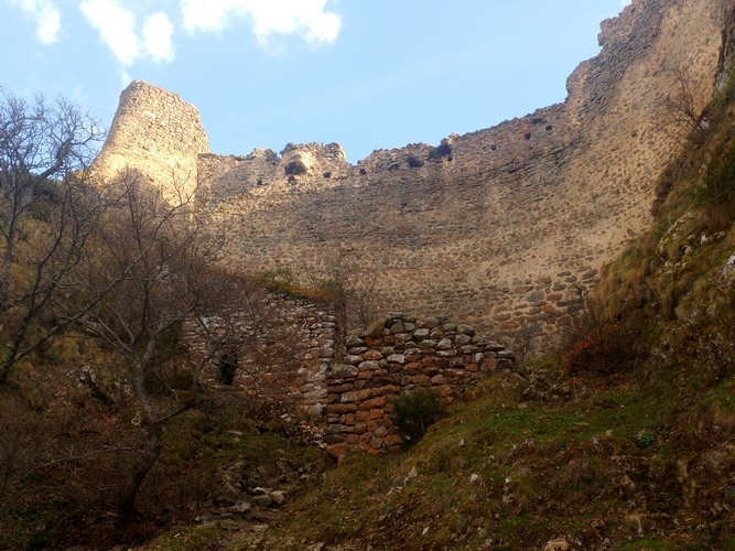 Medieval castle of Okros Tsikhe near Adigeni, Georgia. Northern wall.